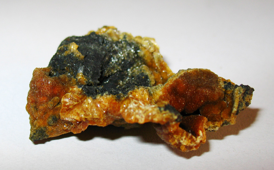 Aluminocopiapite Locality: Montcada hill quarry (Pedrera del Turó de Montcada), Montcada i Reixac, Vallès Occidental, Barcelona, Catalonia, Spain Dimensions: 4 cm x 2 cm x 1 cm Description: Orange botryoidal aggregates of flattened aluminocopiapite (analized by SEM-EDS) crystals.